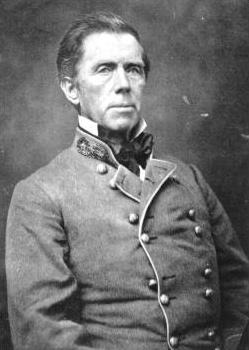 William "Extra Billy" Smith, General of the Confederate States Army and governor of Virginia